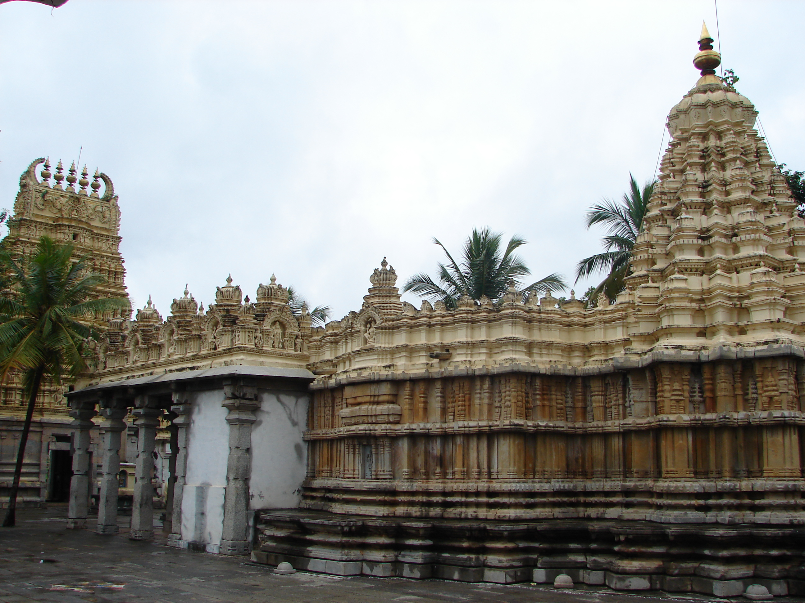 This photograph was taken by me at the Shveta Varahaswami temple, Mysore Palace grounds, Mysore, Mysore district, Karnataka state, India. The construction of the temple was undertaken during the reign of King Chika Devaraja Wodeyar (also pronounced Wadiyar) in the time period 1673-1704 A.D.